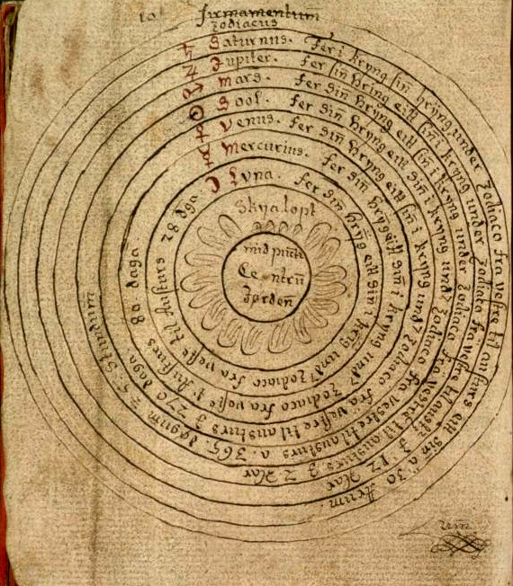 The geocentric world view. From an Icelandic manuscript, written between 1747 and 1752. Now in the care of the Icelandic National Library. See here